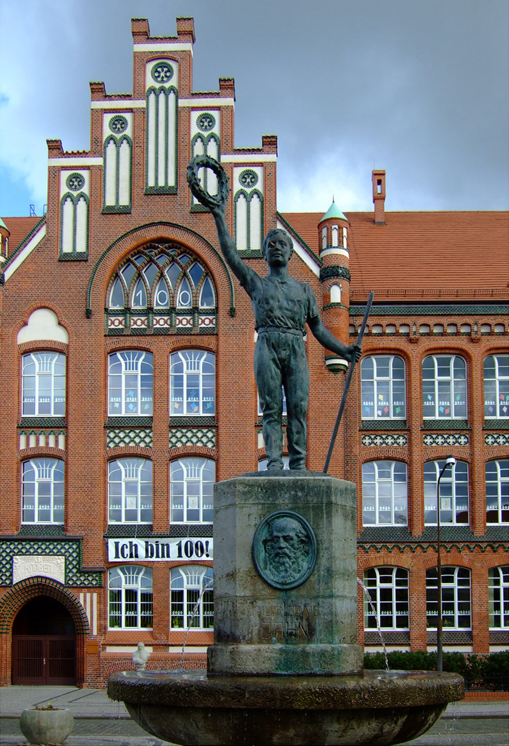 Friedrich Ludwig Jahn Elementary School in Wittenberge. The school was constructed at the "Heisterbusch" in accordance with plans by the municipal architect Friede E. Bruns in 1905-07. On August 11, 1928, on the occasion of the 150th birthday of Friedrich Ludwig Jahn, the school was named in his honor. Jahn, the "Father of Gymnastics", was born in the nearby village of Lanz.